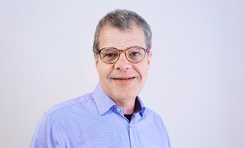 Portrait of Kåre Mølbak